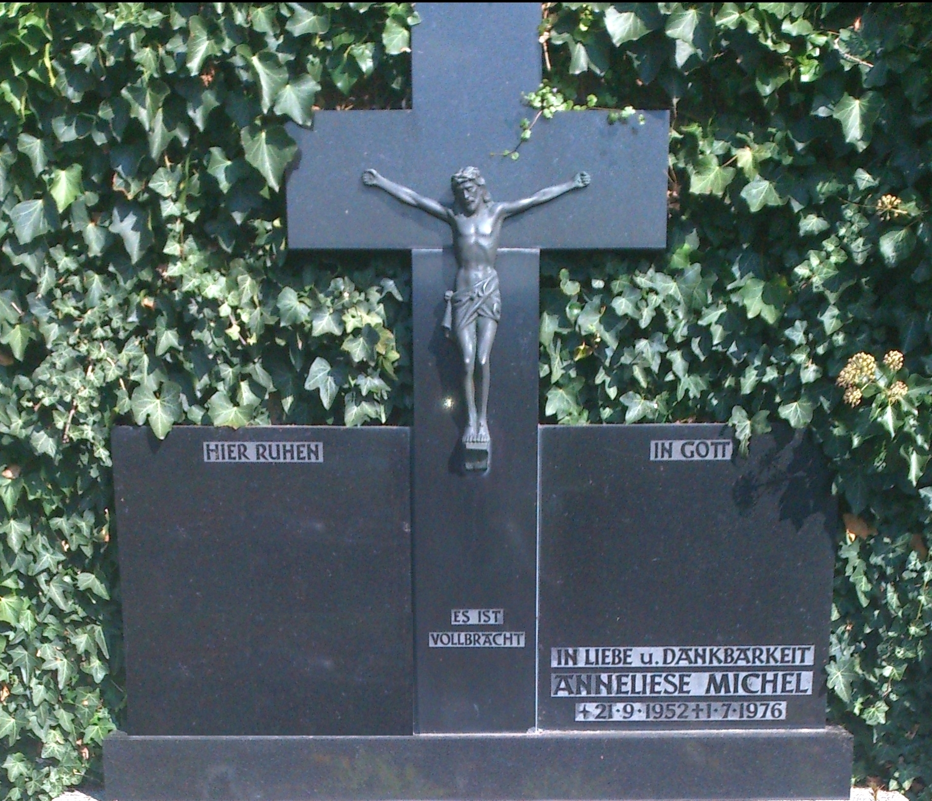 gravestone